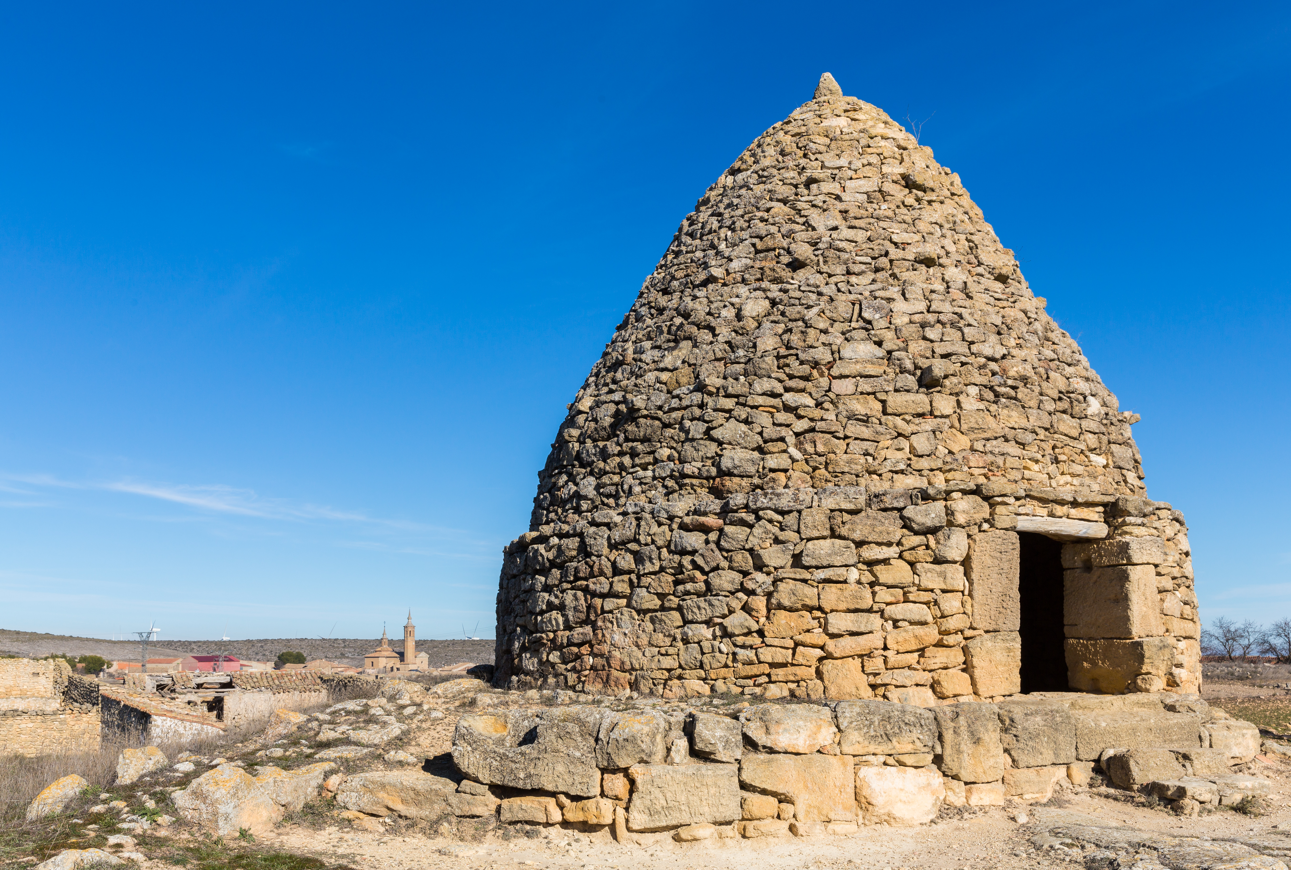 Icehouse of Culroya, Fuendetodos, Zaragoza, Spain